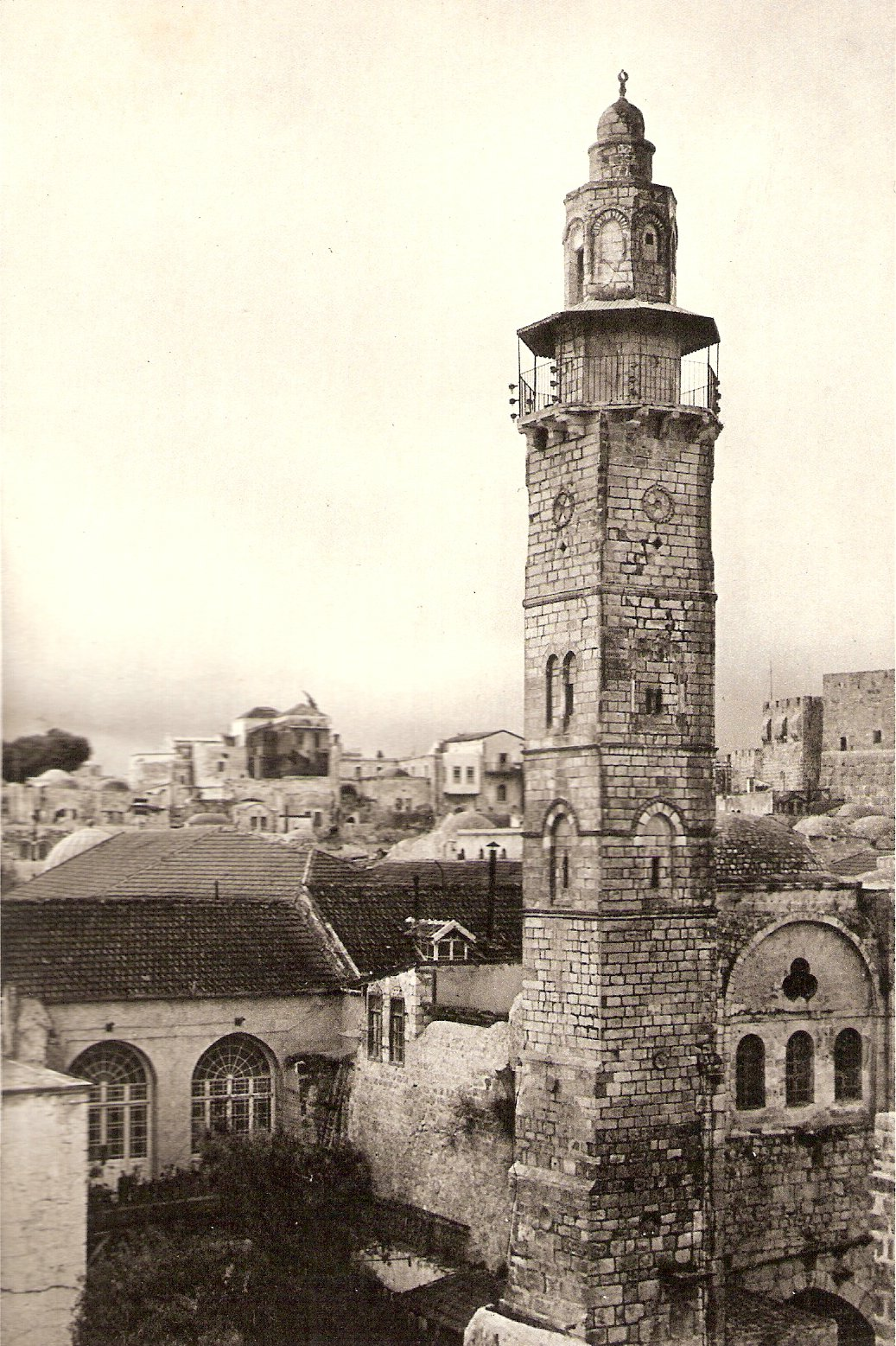 Mosque of Sidna Omar, Jerusalem (1925)